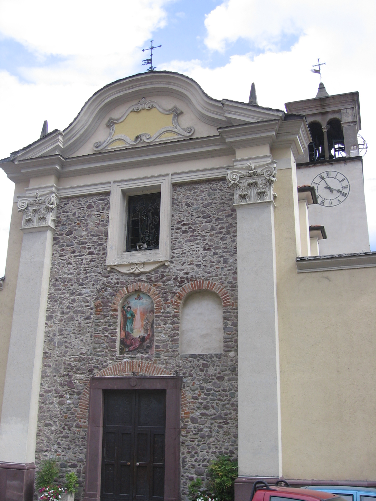 Pieve - Chiesa di Santo Stefano Protomartire. Rogno, Val Camonica, Province of Bergamo, Italy